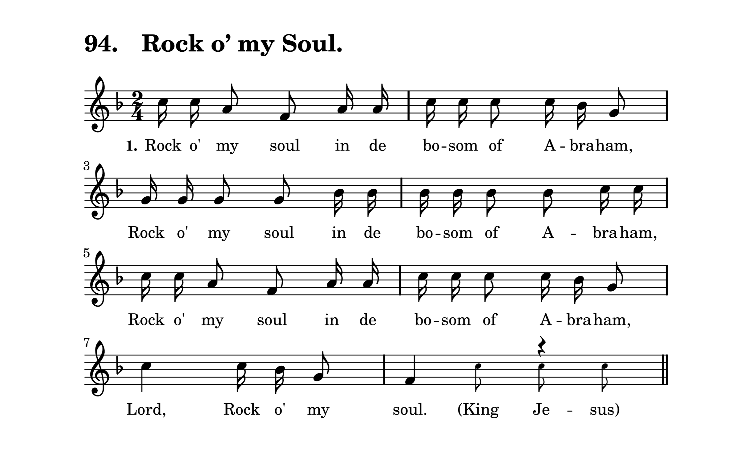 Music from the 1867 collection Slave Songs of the United States